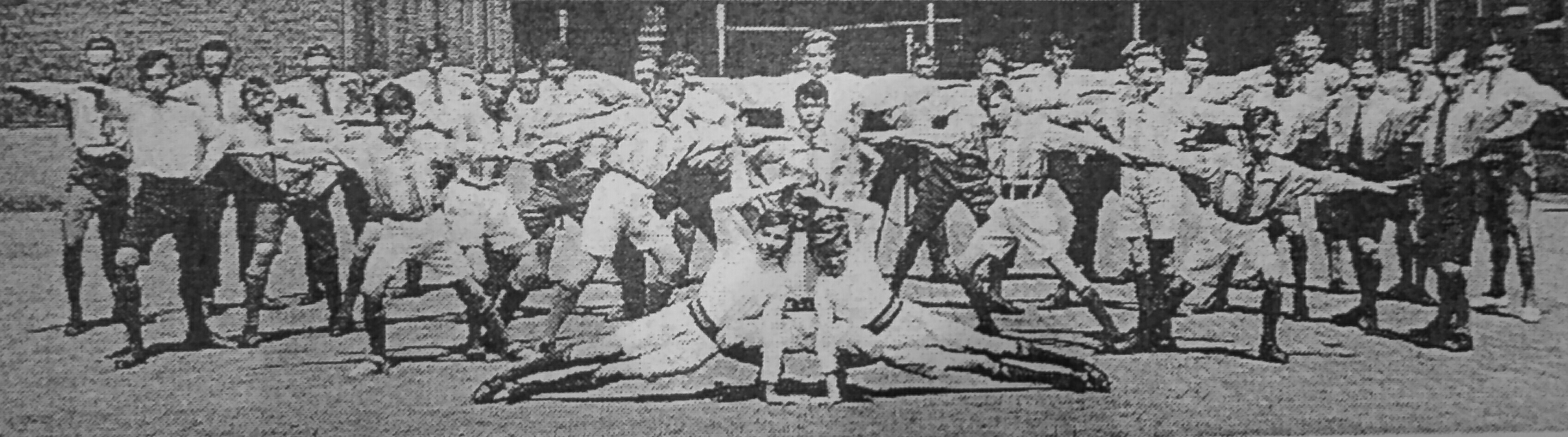 Old picture from children of the Sint-Gabriëlcollege in Boechout (Belgium). The author is unknown and the picture is older than 70 years.